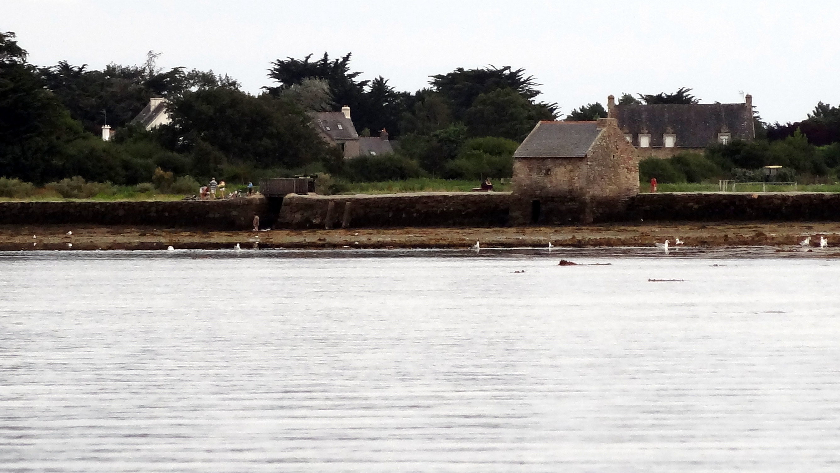 The Berno's tide mill, located on the île-d'Arz, seen from the Golf of Morbihan.